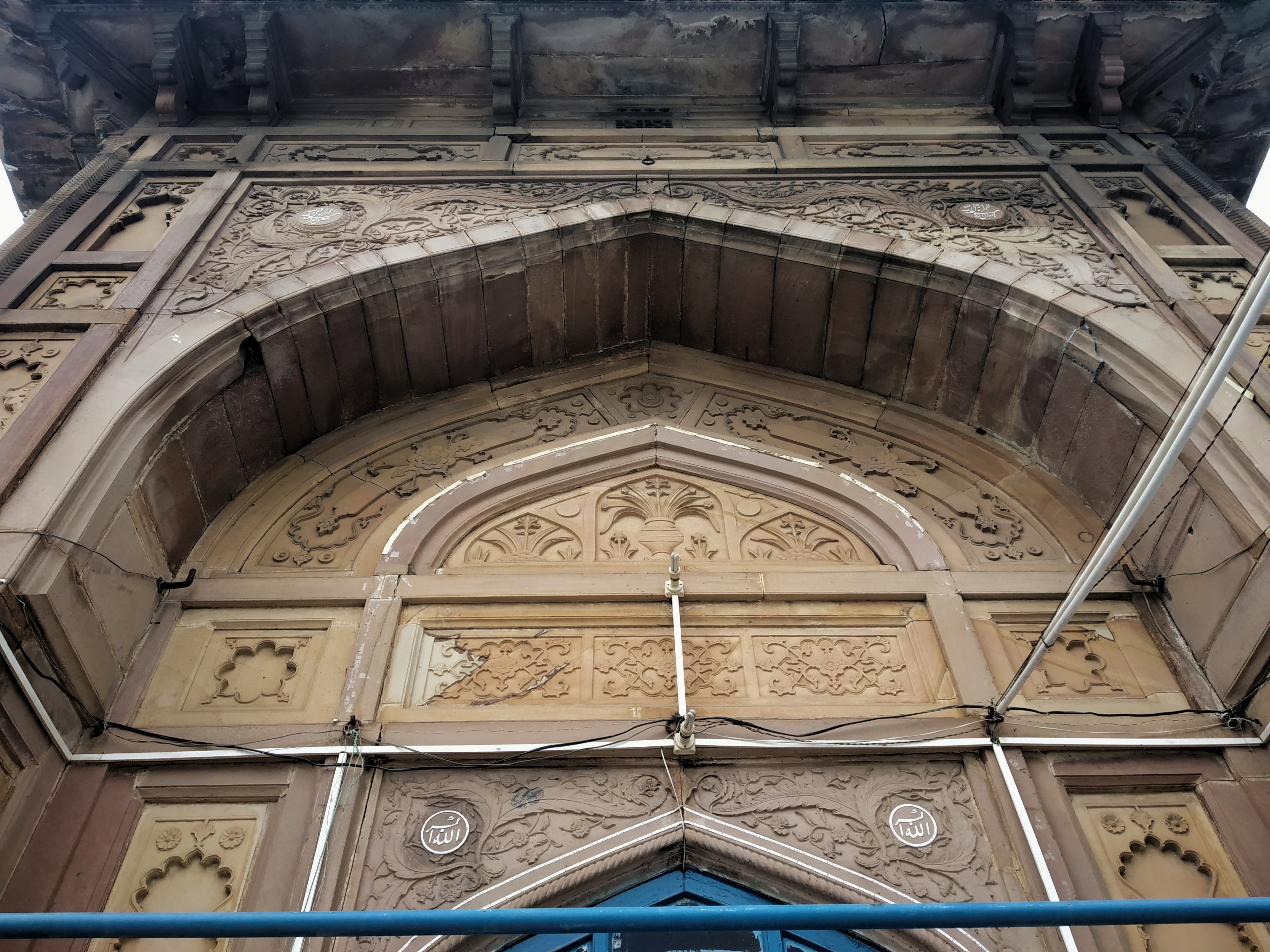 Mane gate Shahi masjid